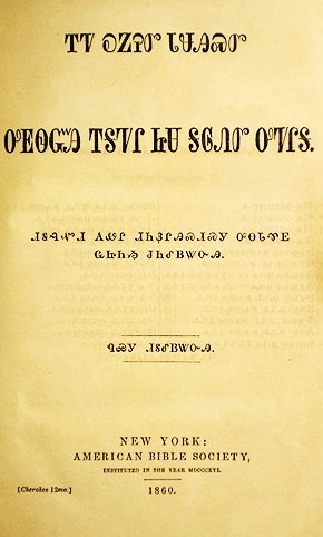 Title page of the Cherokee language Bible. New Testament published 1850-1951 in the Cherokee Syllabary.